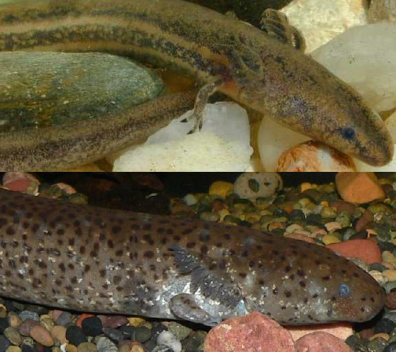 Sirenidae.